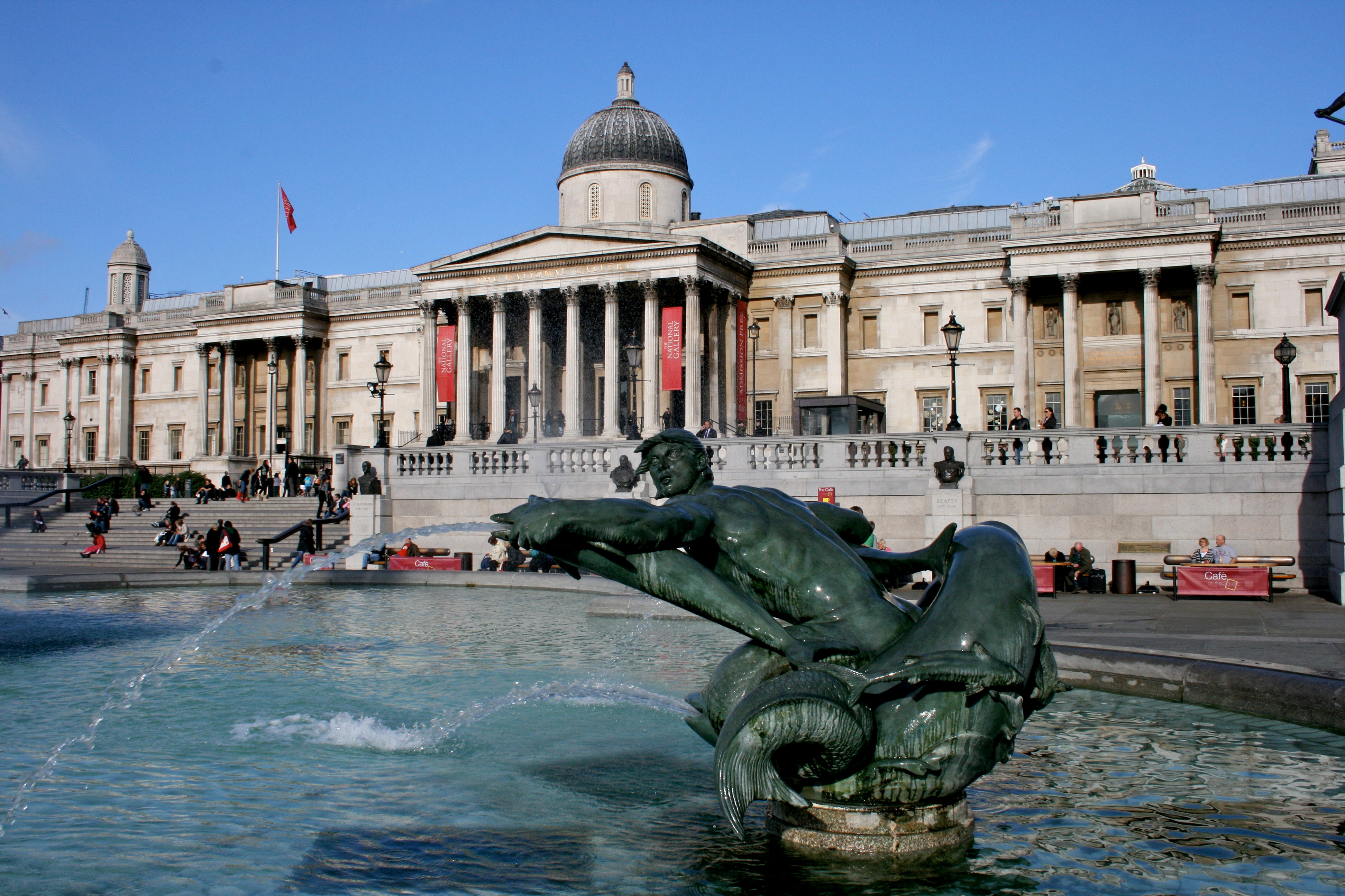 Fountain in Trafalgar Square, with the National Gallery in the background.